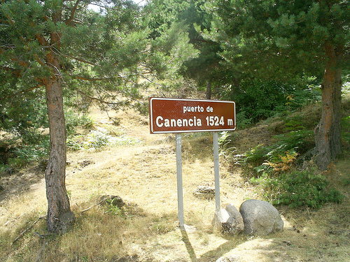 Canencia Pass is a mountain pass in the Community of Madrid, Spain